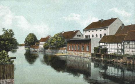 Darłowo (before 1945 Rügenwalde) about 1900